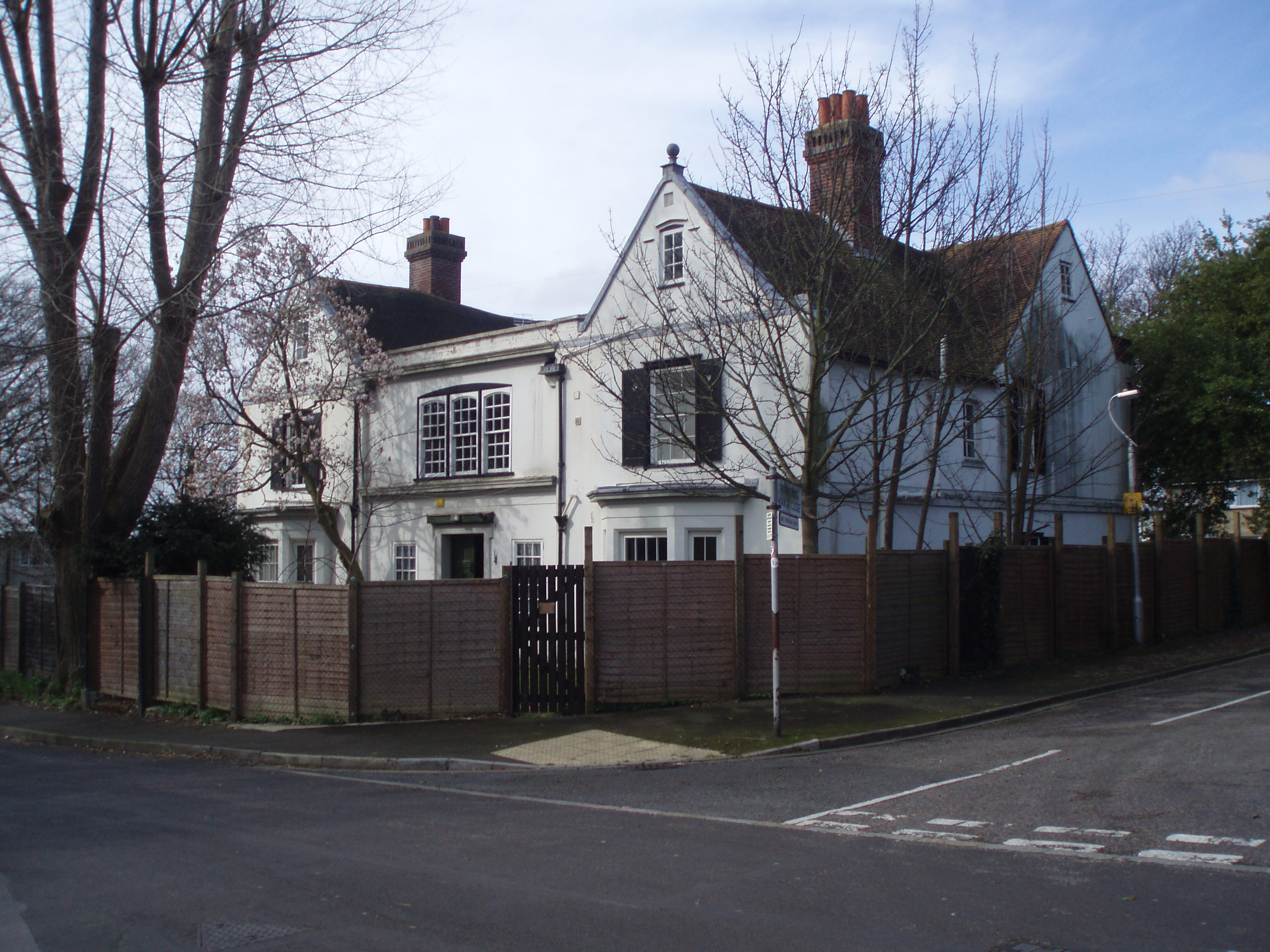 Matthew Eyre Taken 20 March 2007